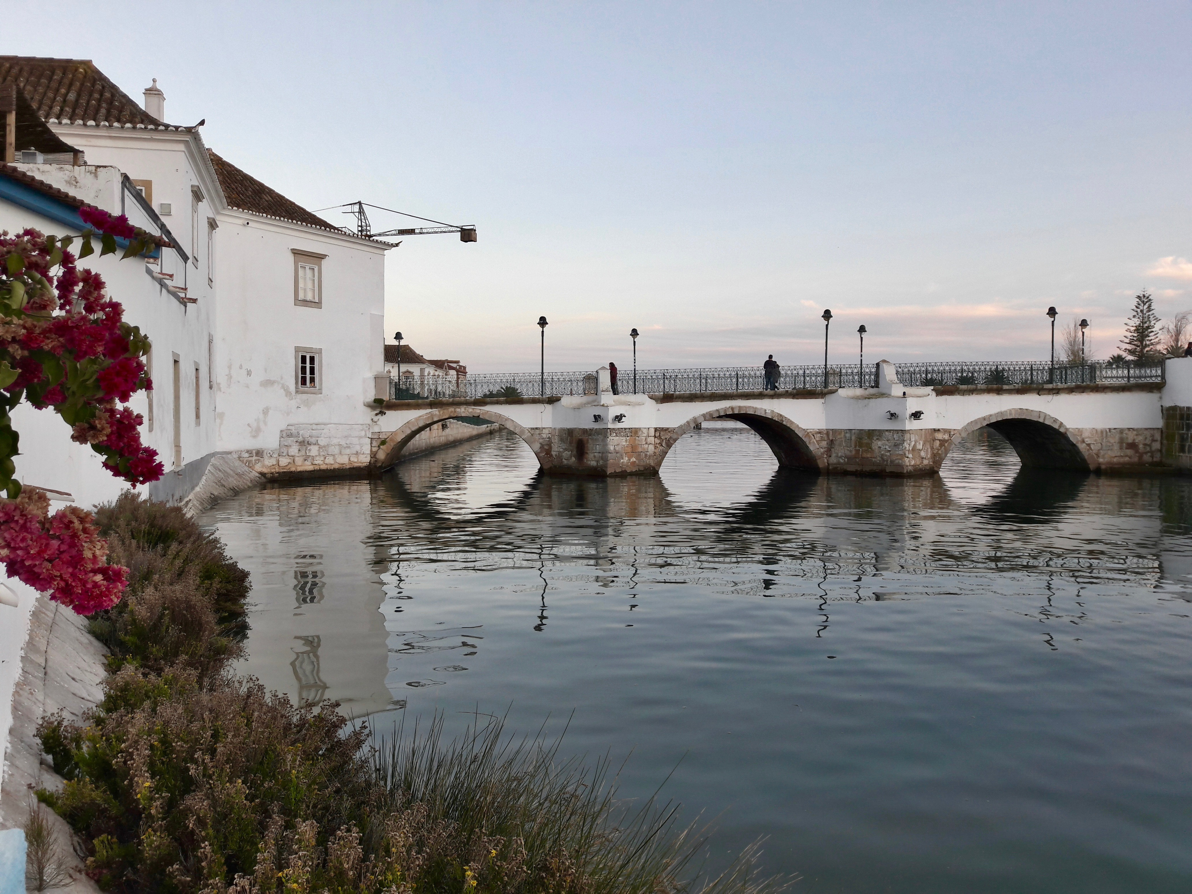 Partial view of Tavira's medieval bridge.